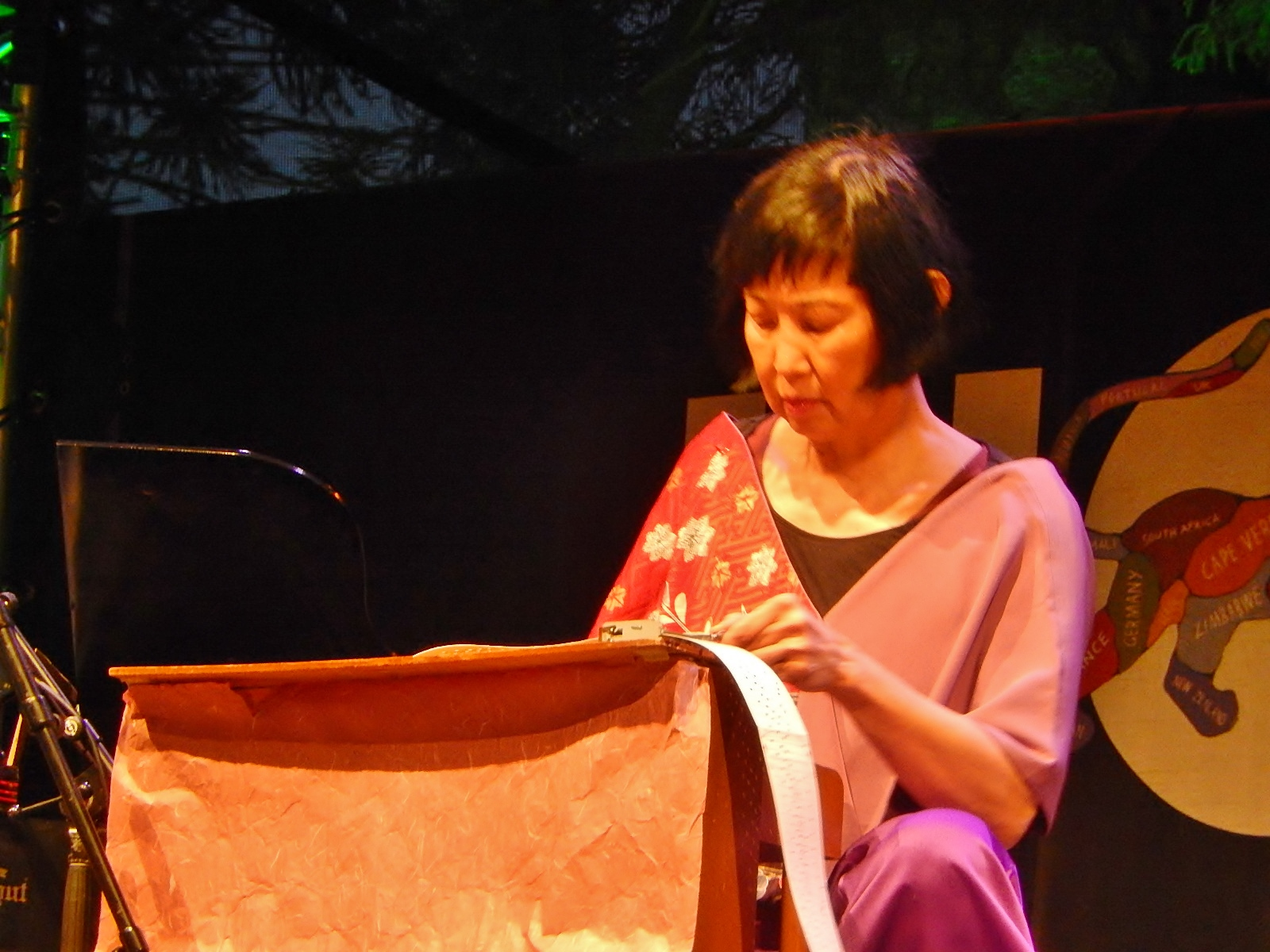 Margaret Leng Tan performs at Womadelaide 2015